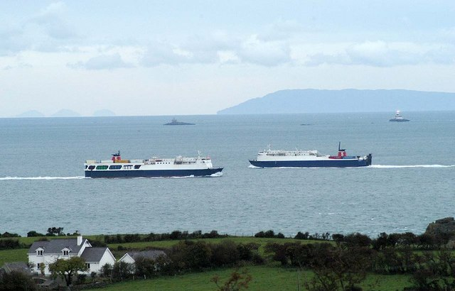 View from Mullaghboy on Islandmagee, Northern Ireland, overlooking the North Channel. Two Stena Line vessels are passing, Stena Pioneer (outbound for Fleetwood) and Stena Seafarer (inbound from Fleetwood). In the background are the Maidens Lighthouses, the coast of Scotland (Mull of Kintyre), and to the left, the Paps of Jura (approx 60 miles distance).